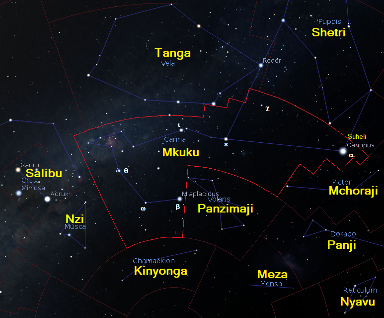 Constellation Carina as seen from Tanzania, Swahili labelled Kiswahili: Kundinyota Mkuku (Carina) jinsi inavyoonekana kutoka Tanzania, majina kwa Kiswahili